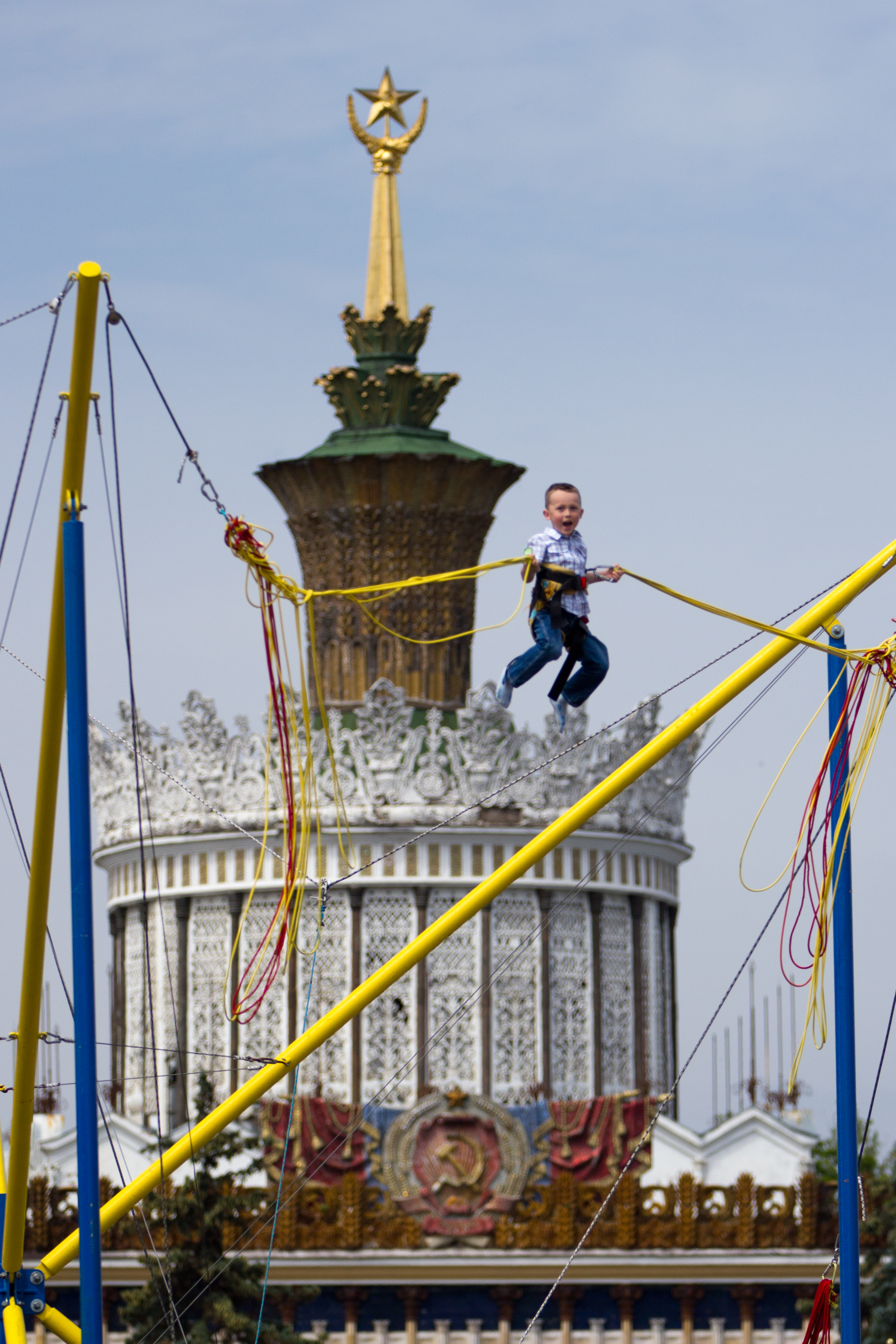 Russia